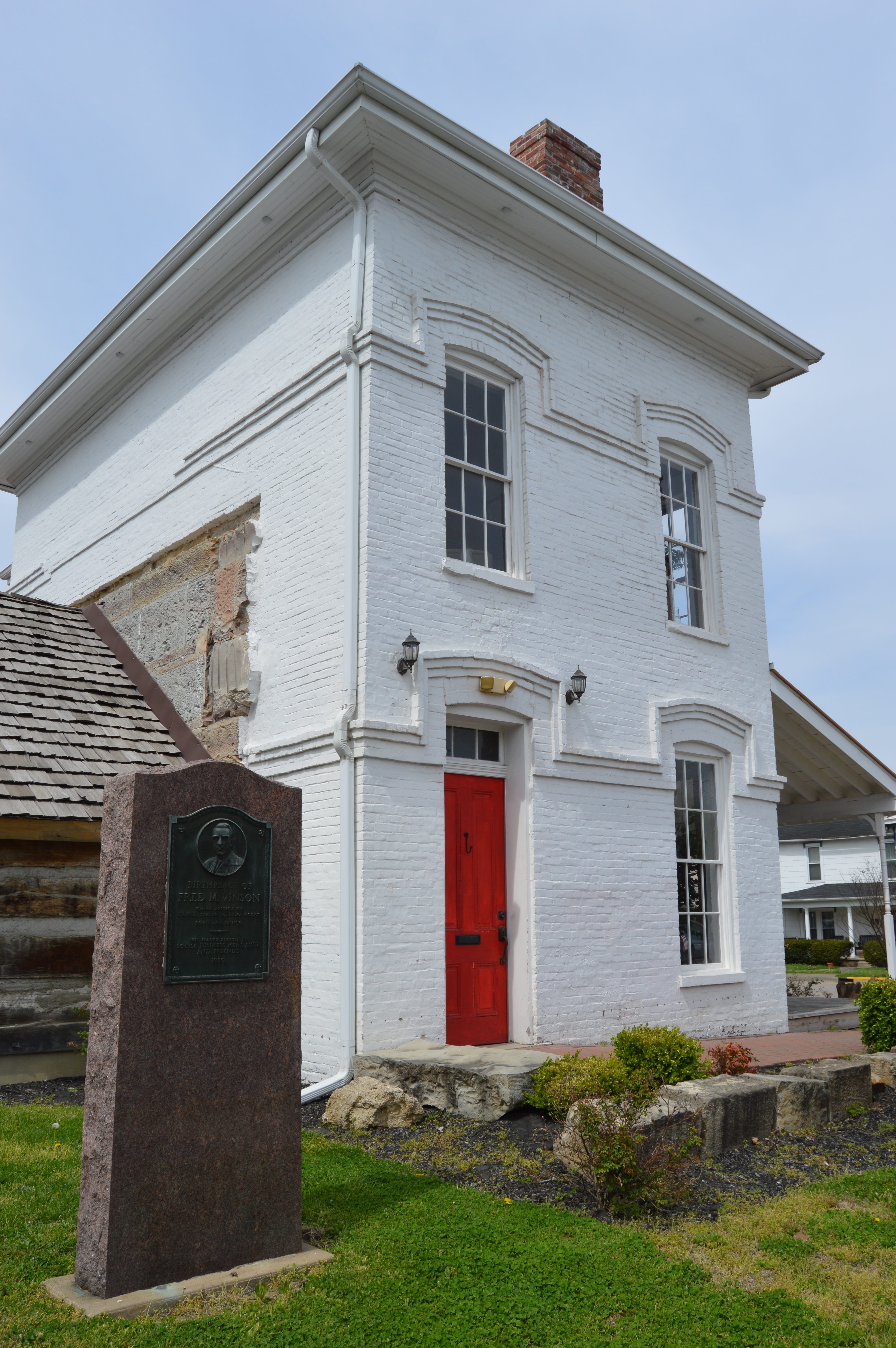 Front of the Fred M. Vinson Birthplace, located on the northwestern corner of the junction of Madison Street (Kentucky Route 3) and Vinson Avenue in Louisa, Kentucky, United States. Built in 1889 and the childhood home of Fred M. Vinson, Chief Justice of the United States, it is listed on the National Register of Historic Places.